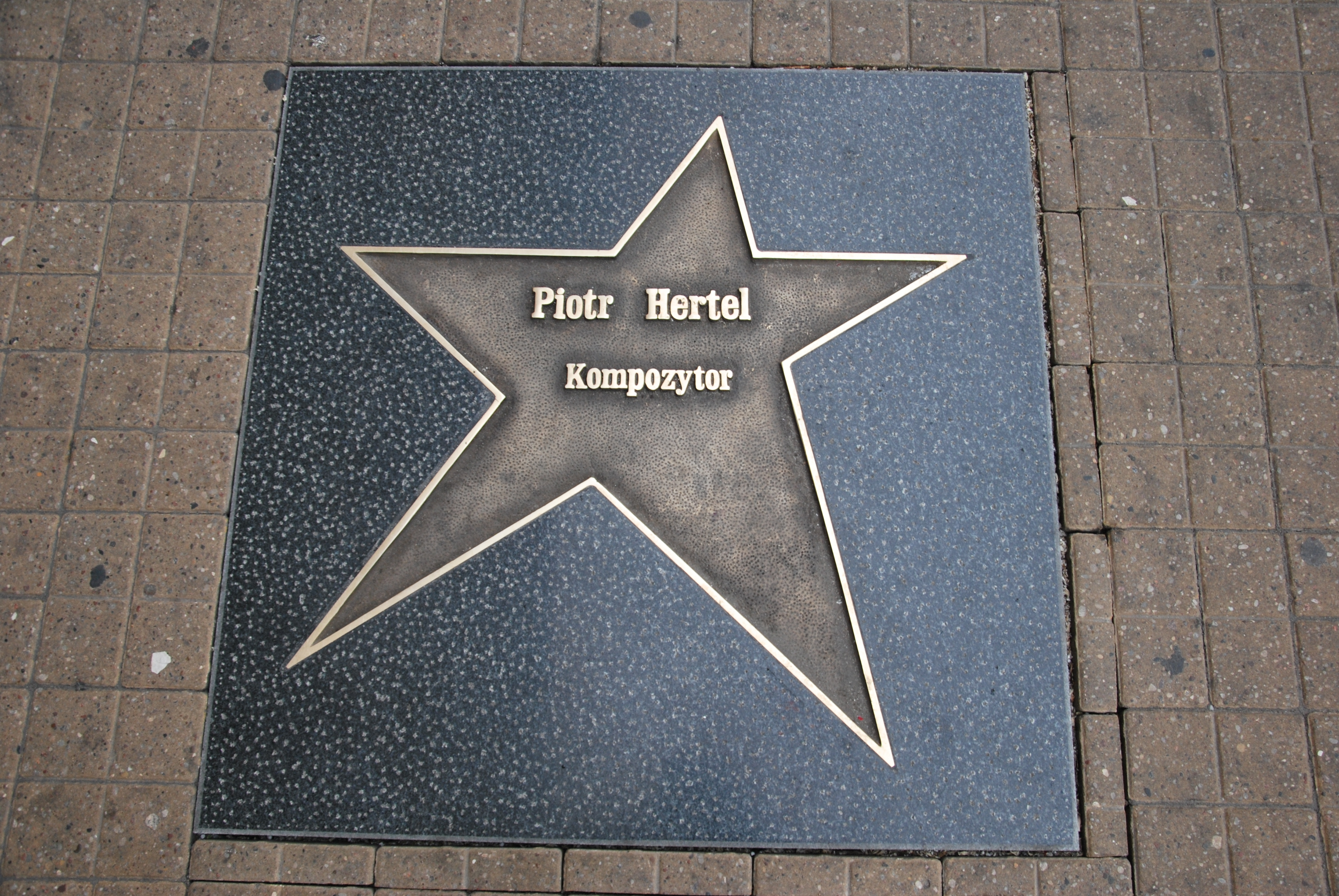 Piotr Hertel's star in Łódź Walk of Fame